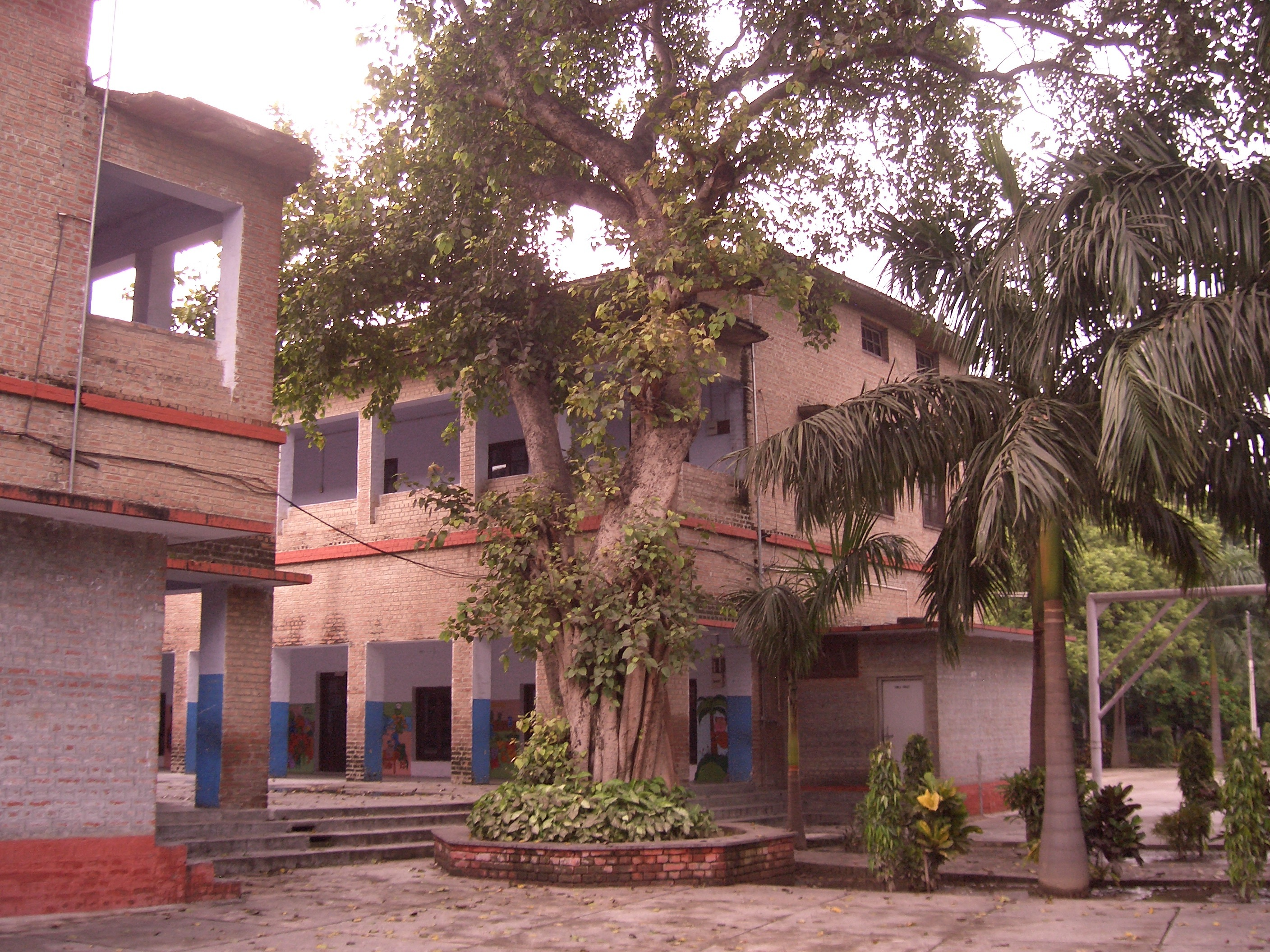 Methodist High School, Kanpur - Primary Section Photo